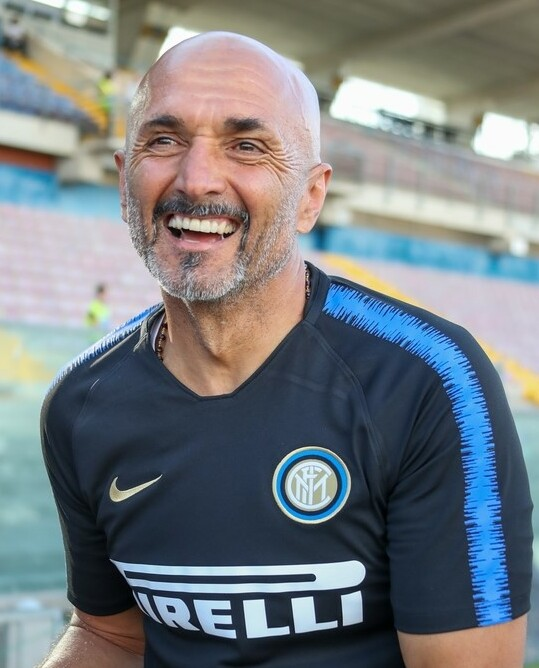 21.07.2018. Италия, Пиза. Третий «Газпром» — тренировочный сбор: товарищеский матч «Интер» — «Зенит».